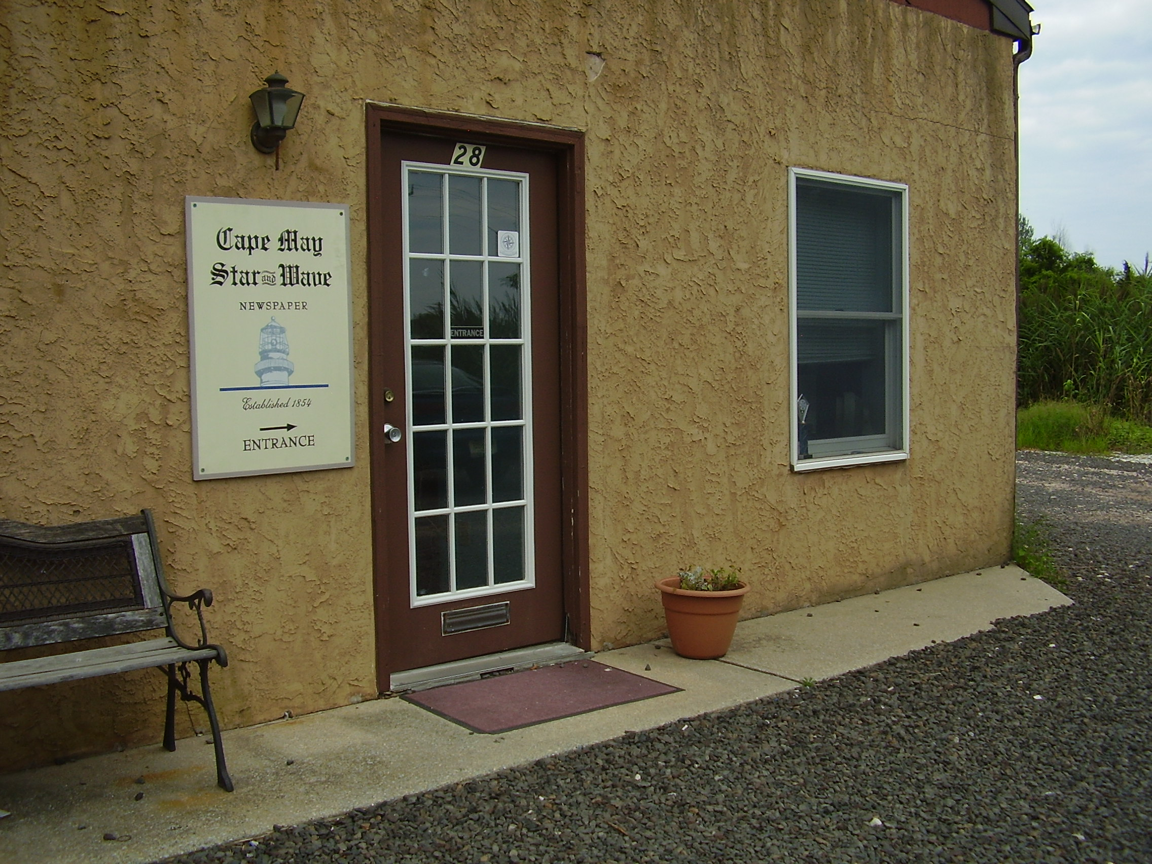 Cape May Star and Wave headquarters